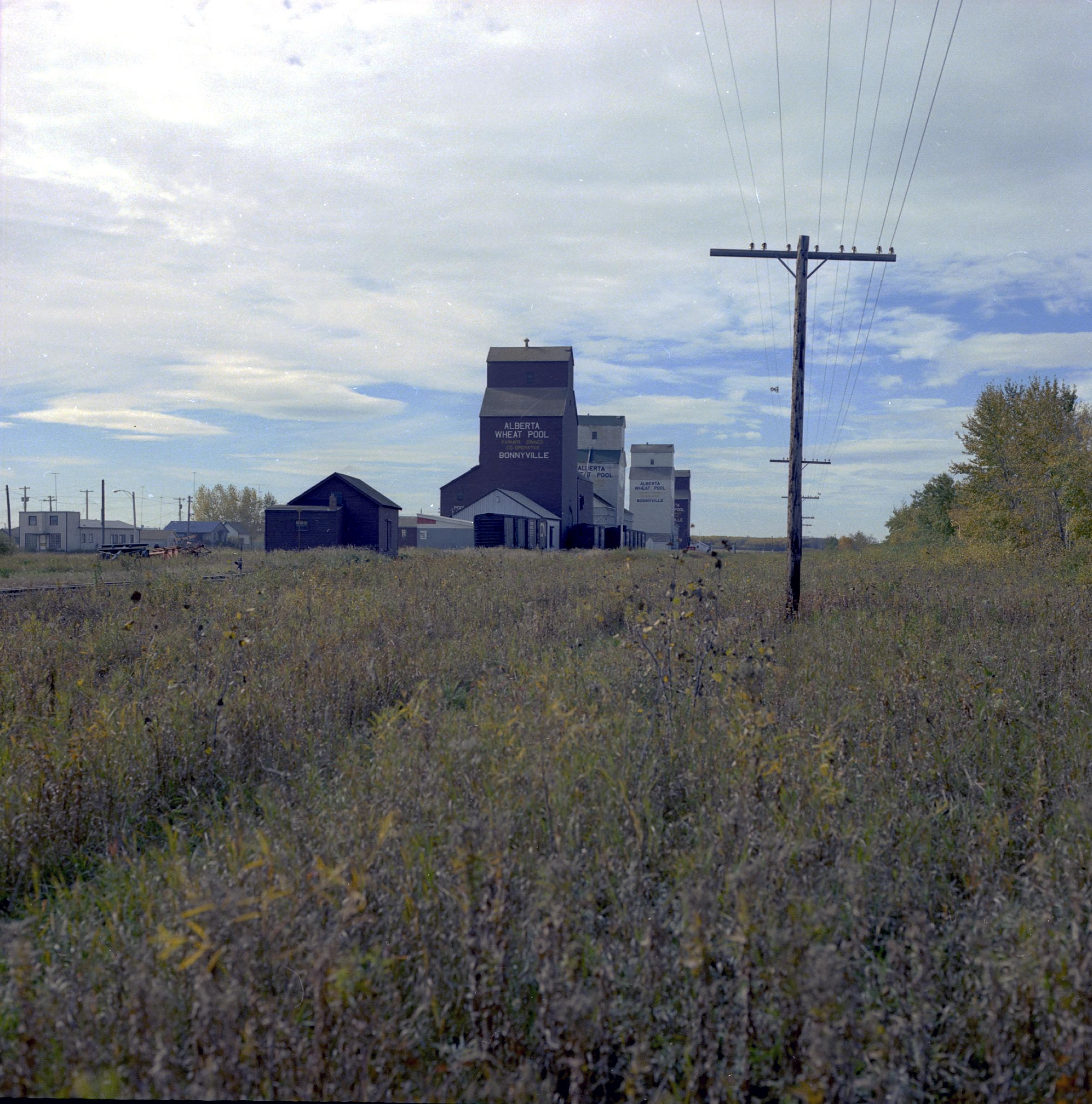 Alberta Wheat Pool grain elevators in Bonnyville, Alberta.